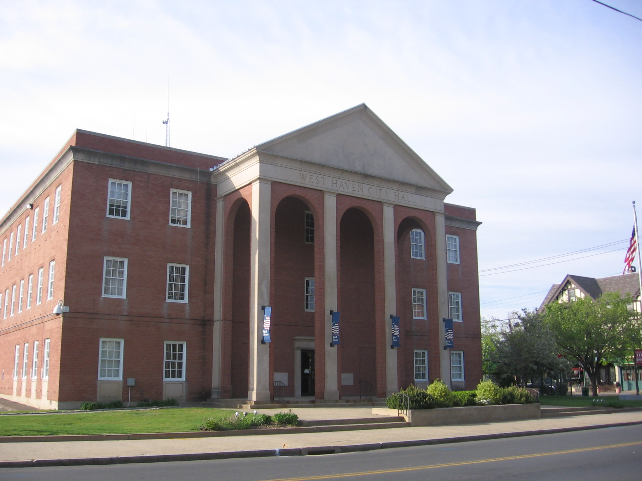 The City Hall of West Haven, Connecticut along Main Street across from the Green. Looking north from the edge of the Green.